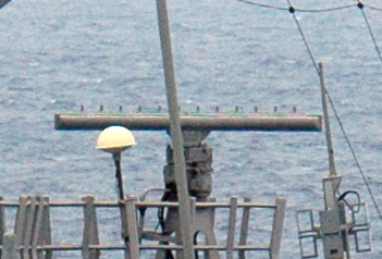 Cropped version focuses on surface search radar on mast, AN/SPS-67 Original description:The Ensign blows in the wind on the mast of guided-missile destroyer USS Paul Hamilton (DDG 60) during a pass in review of ships from the Ronald Reagan Strike Group (RRSG) and Japan Maritime Self Defense Force in the Western Pacific Ocean March 18, 2007. The RRSG is under way on a surge deployment in support of U.S. military operations in the Western Pacific. (U.S. Navy photo by Mass Communication Specialist 3rd Class Joshua Scott) (Released)